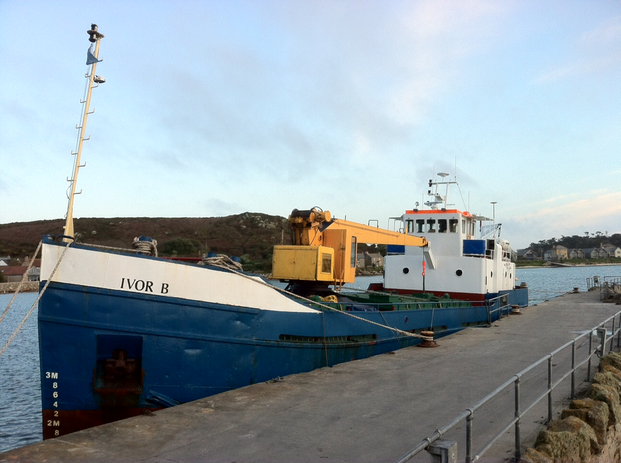 The Ivor B at New Grimsby Harbour, Tresco, Isles of Scilly. Purchased by the Isles of Scilly Steamship Company in 2010, this vessel was formerly the Guedel from northern France